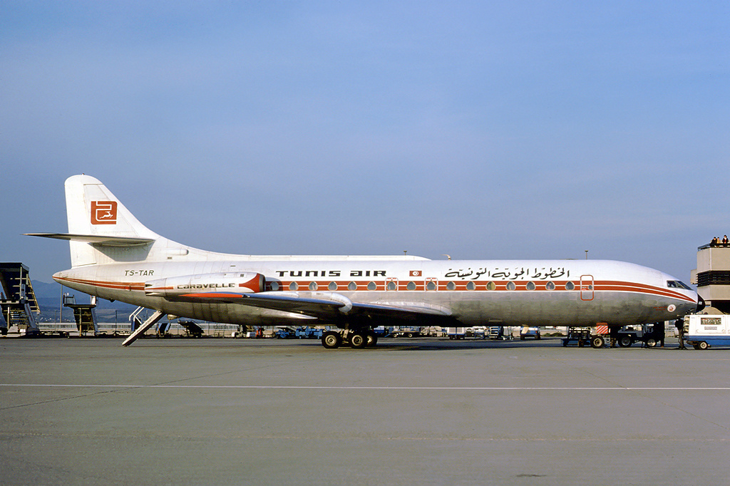 A Tunisair Sud SE-210 Caravelle III At Euroairport (BSL / MLH / LFSB)